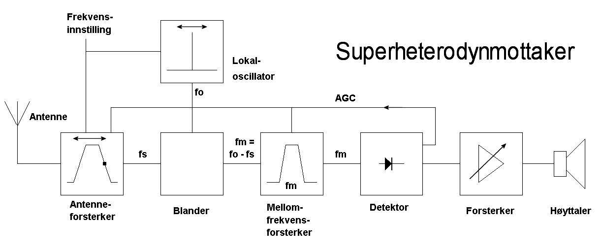 Superhet receiver block diagram